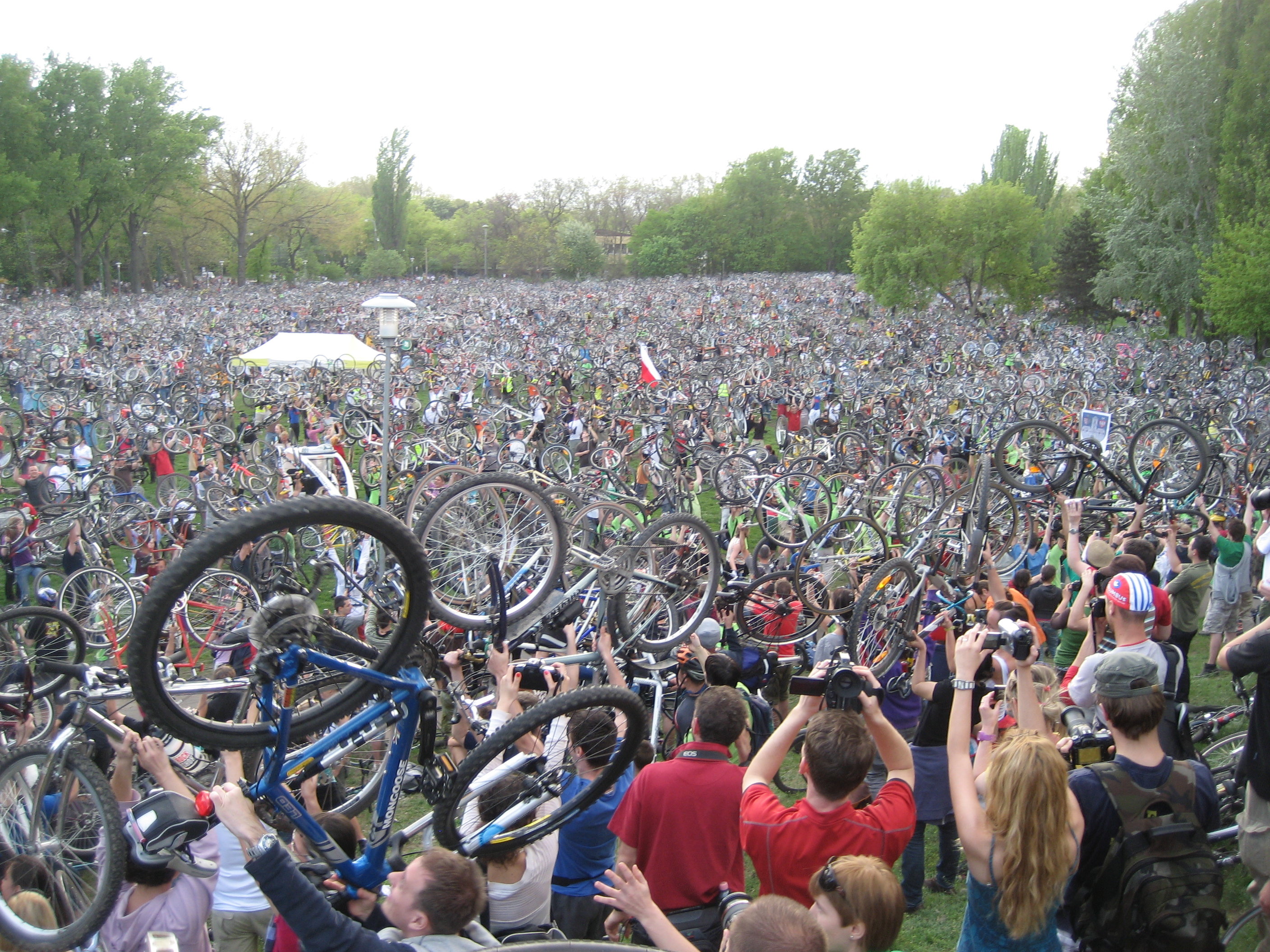 Critical Mass in Budapest, April 19, 2009